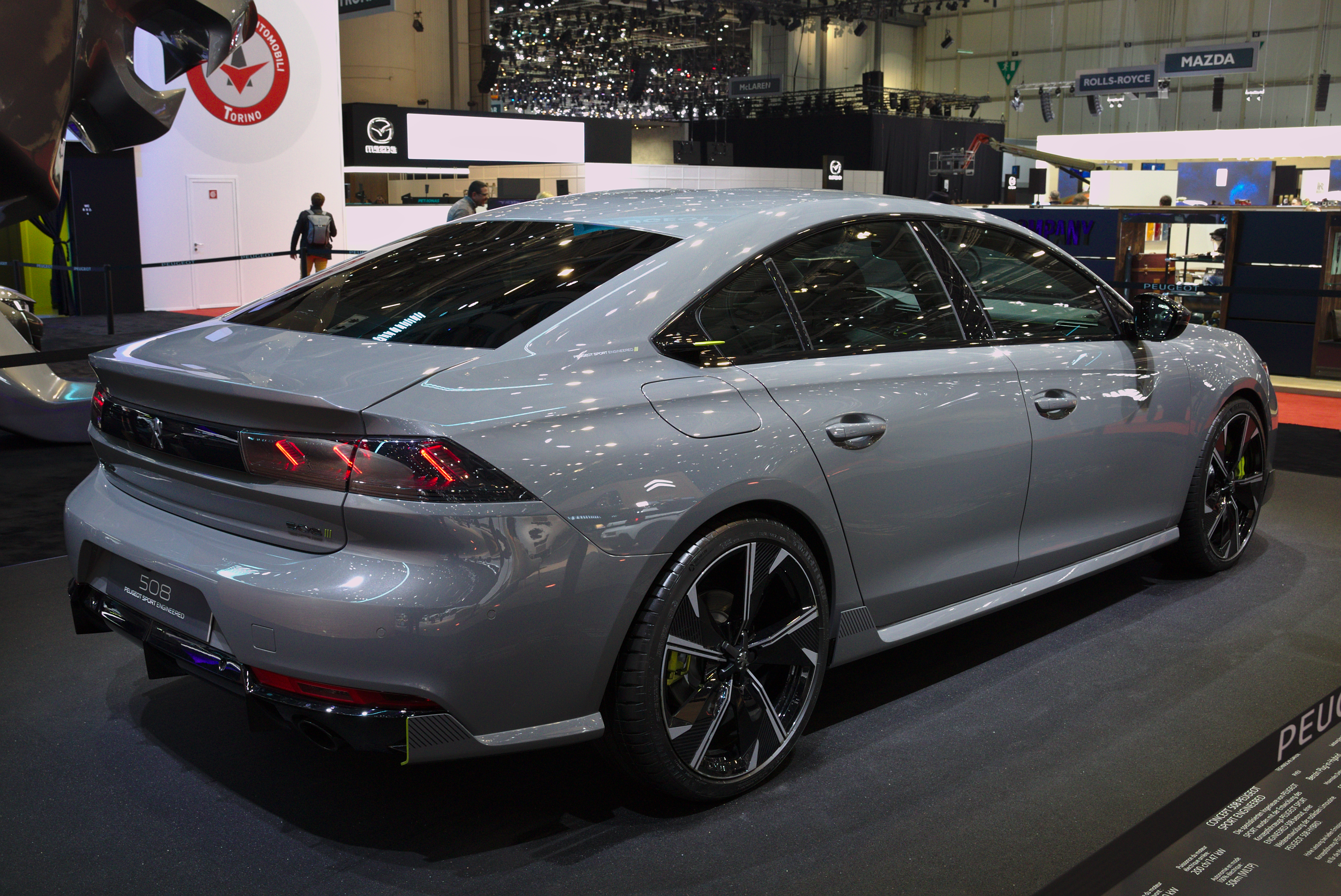 Peugeot 508 Peugeot Sport Engineered at Geneva Motor Show 2019